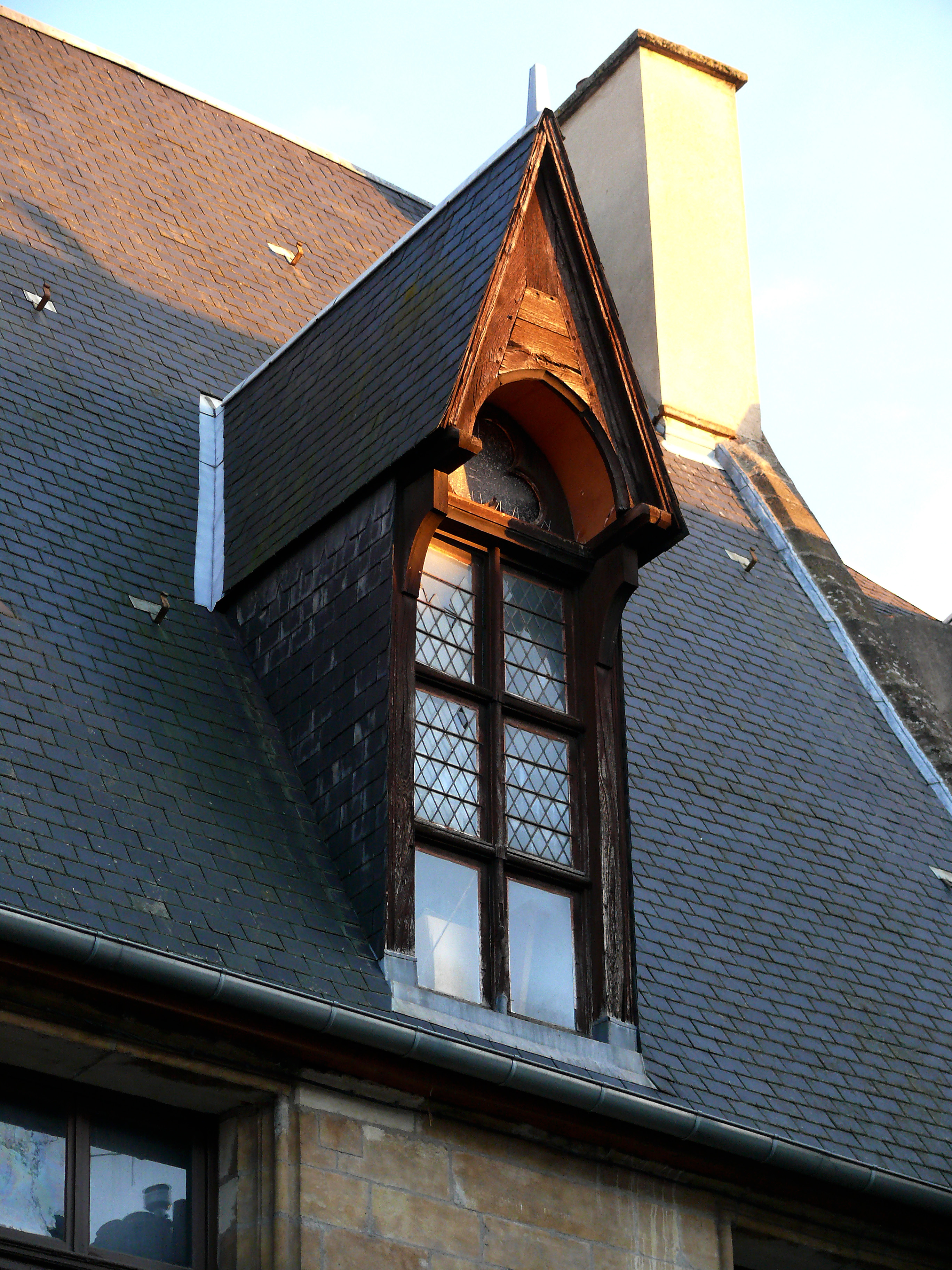 High pitched gable dormeer, Hôtel Demoret, Moulins, France.